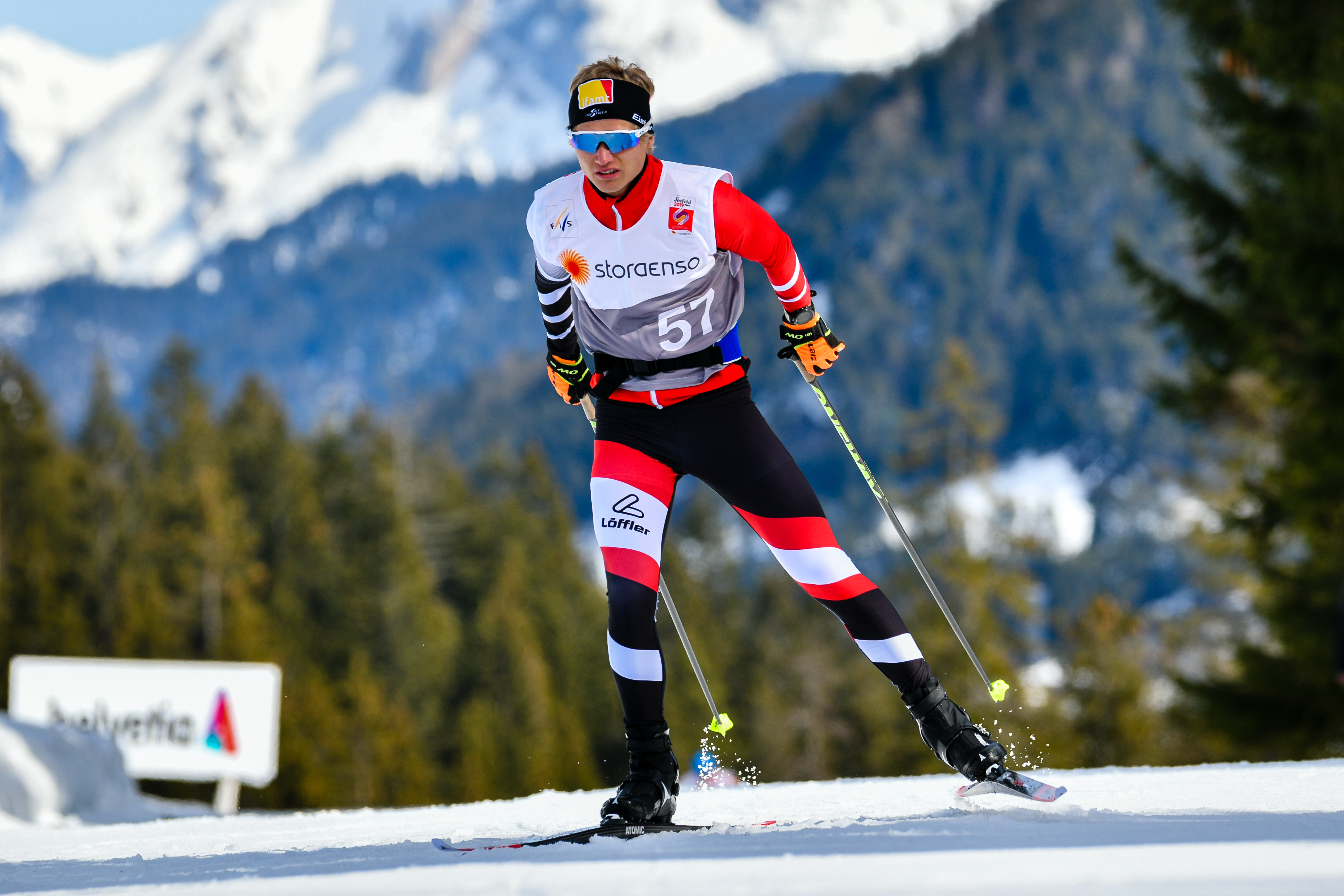 FIS Nordic Wolrd Ski Championships Seefeld 2019 - Men Cross Country 50km Mass Start Free. Picture shows Mika Vermeulen (AUT).